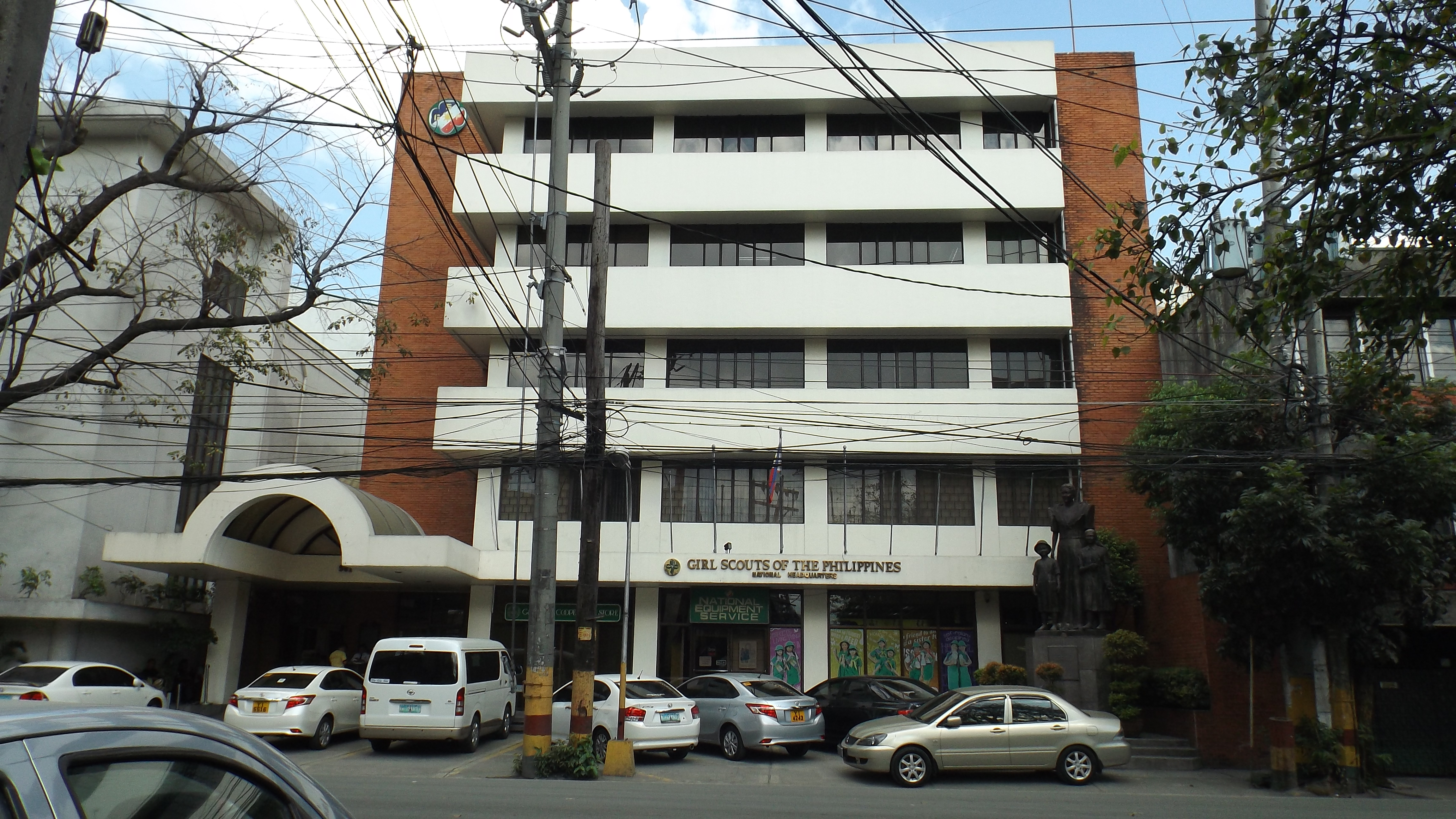 Facade